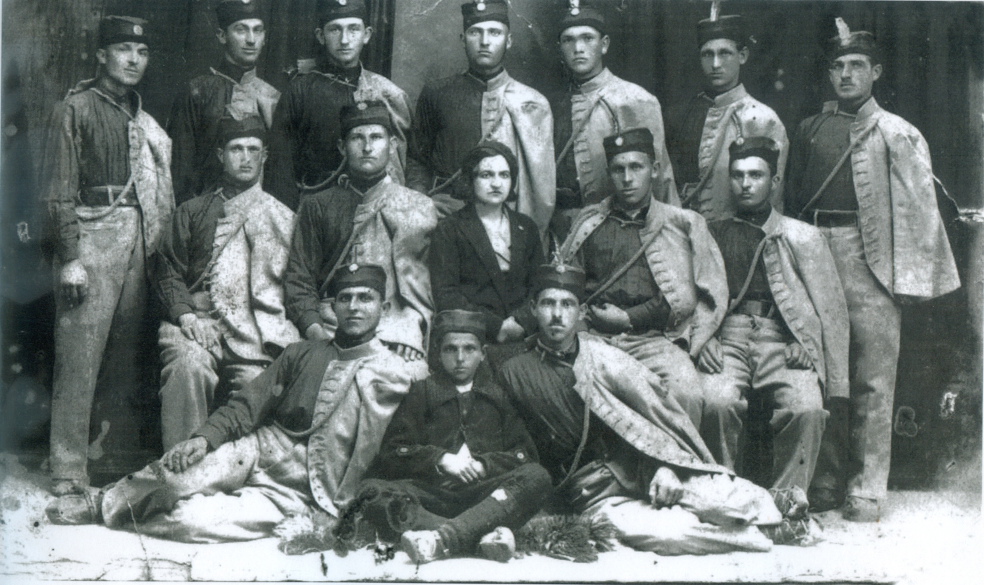 The Scouts Society from Mokranje near Negotin Srpski (latinica): Sokolsko društvo iz Mokranja kod Negotina